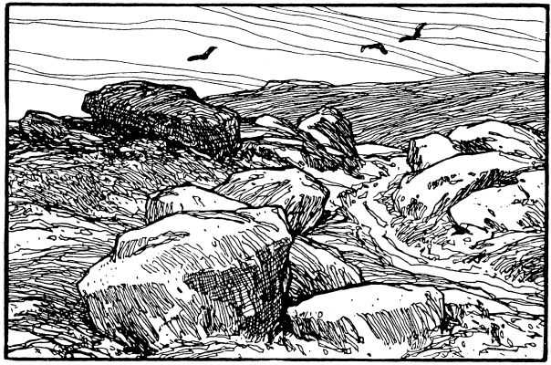 Illustration by Otto Ubbelohde to the fairy tale The Nixie of the Mill-Pond